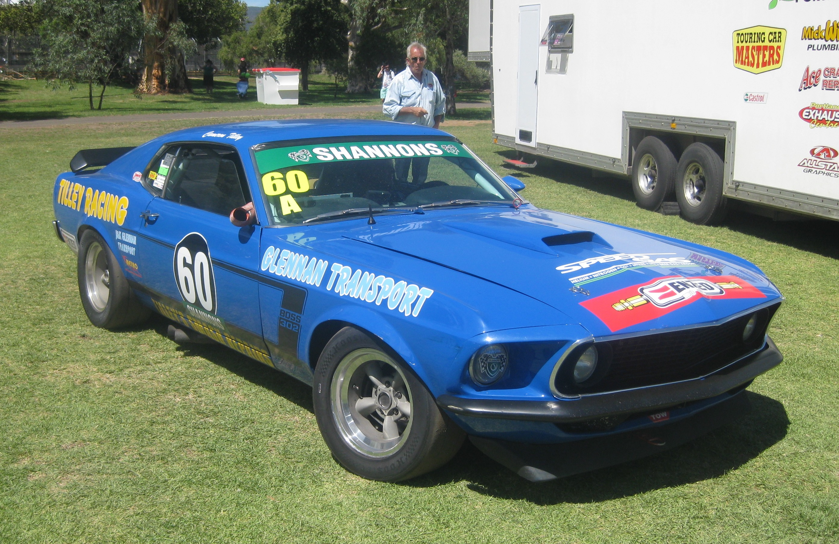 1969 Ford Mustang Boss 302 of Cameron Tilley. Round 1, 2014 Touring Car Masters, Adelaide Parklands Circuit.